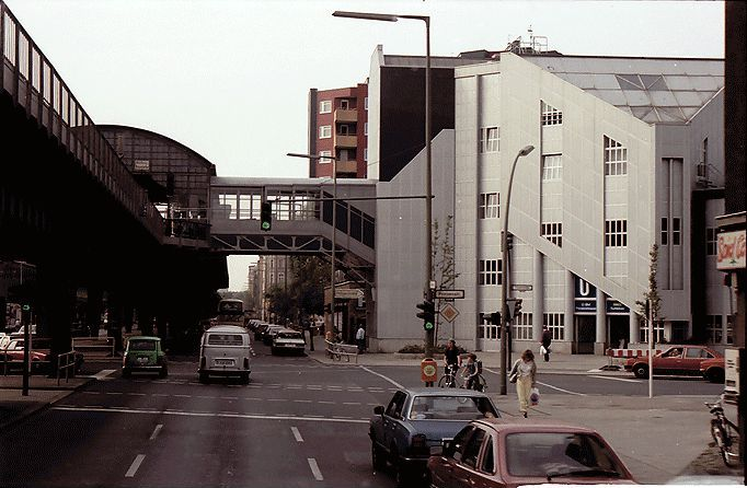 Northern entrance to building to Prinzenstraße U-Bahn station (West Berlin, Germany). In the foreground the intersection between Skalitzer Straße and Prinzenstraße.